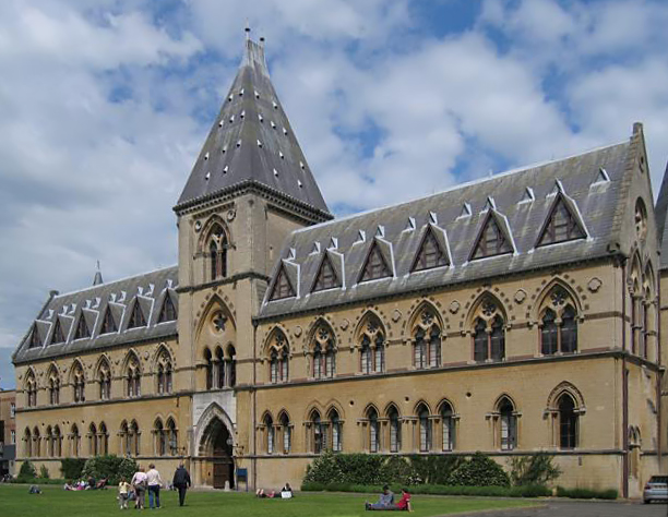 Oxford University Museum of Natural History. Photograph taken by Michael Reeve, 30 May 2004.